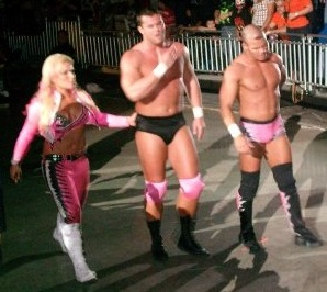 The Hart Dynasty at a Puerto Rico House show